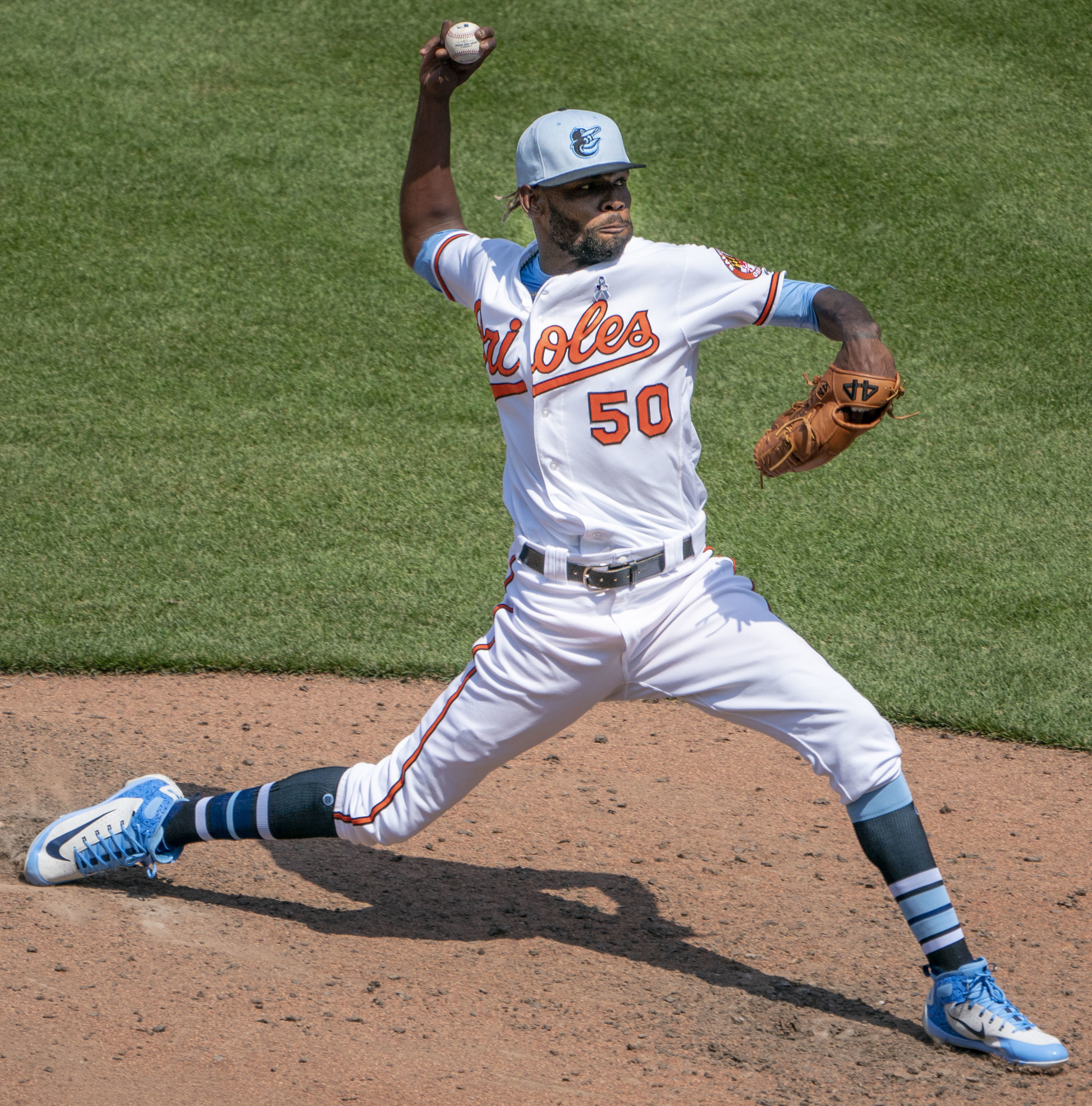 Marlins at Orioles 6/17/18